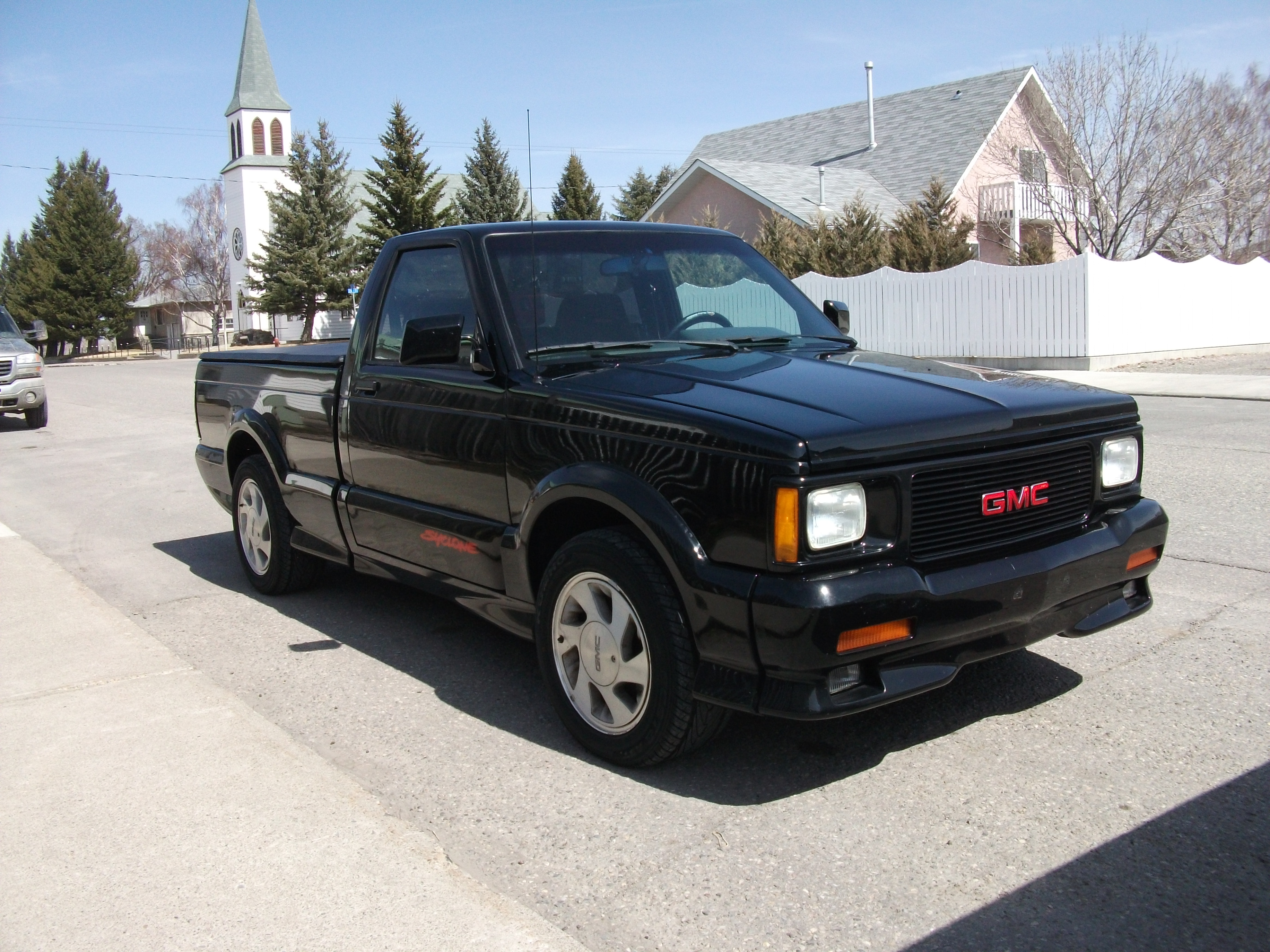 GMC Syclone truck - has a turbo charged V6 engine. When introduced, it was the quickest stock pickup in the world. Quicker than quite a few sports cars ... in a straight line anyway.